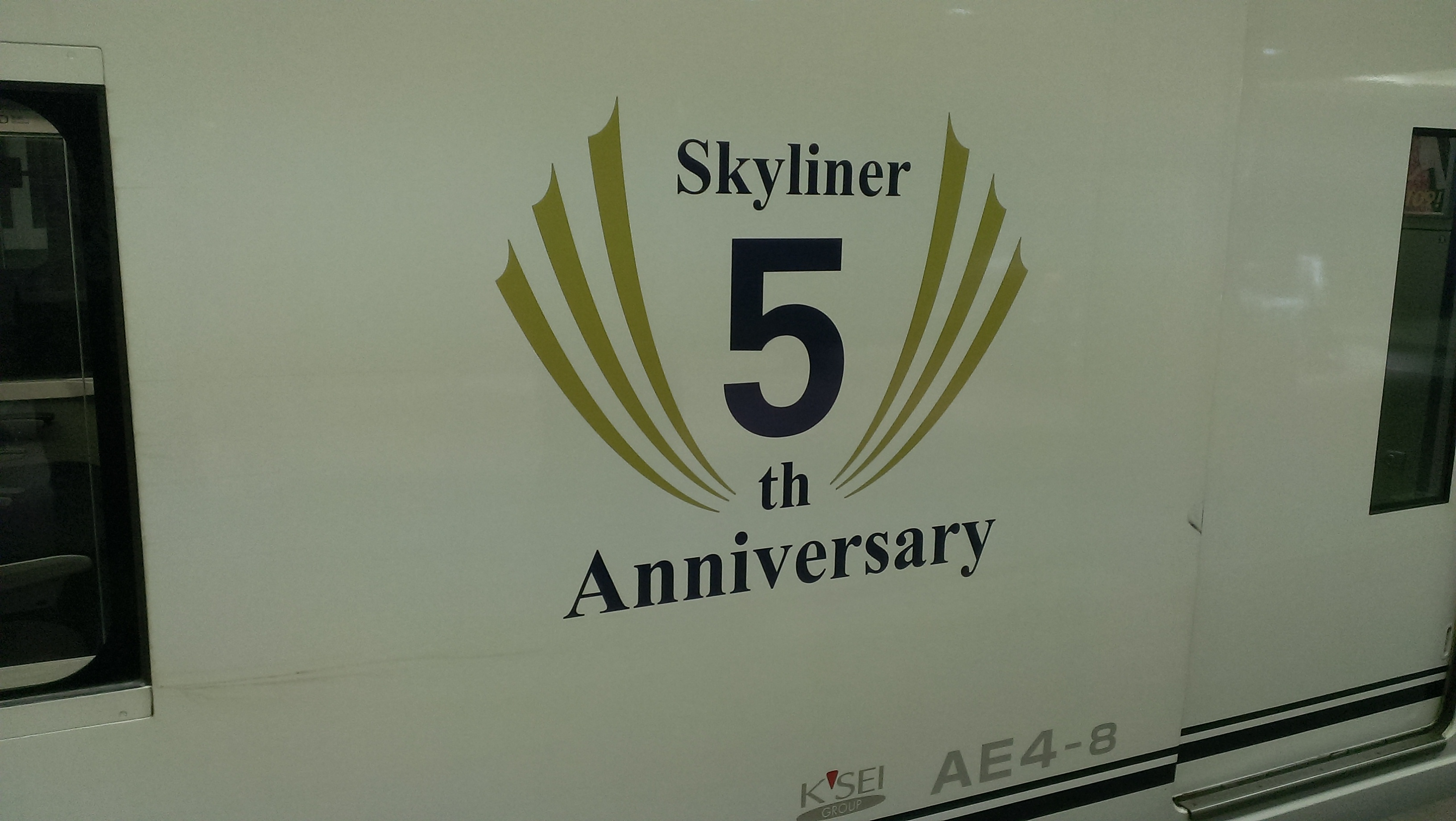 5th Anniversary logo of Skyliner.